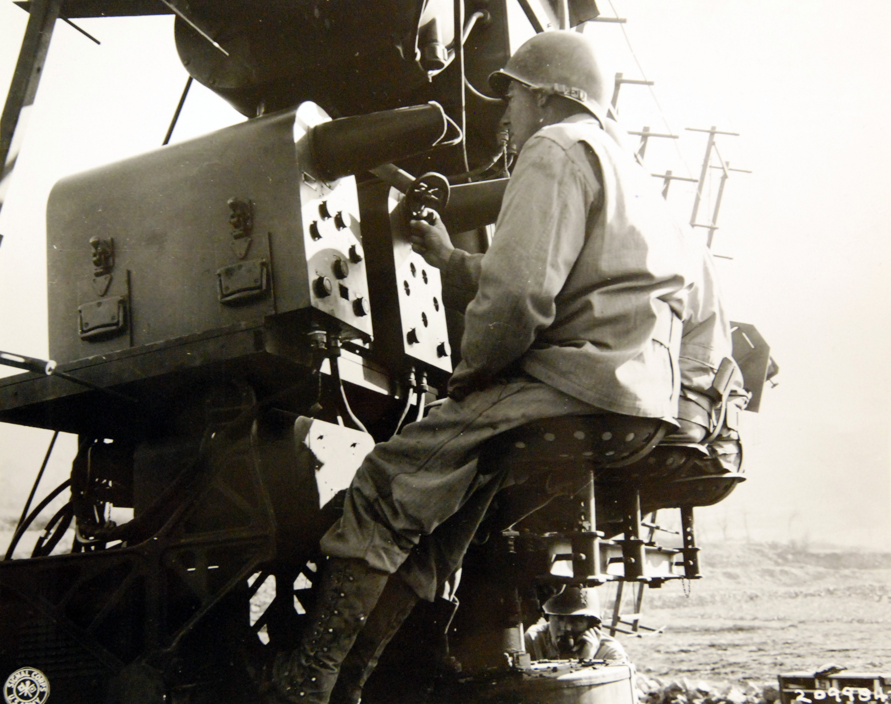 Lot-2292-4: WWII-Communications: Radar in Operation. Oscilloscope operators on an SCR 268 radar maintain watch near Menella, Italy. Nearest the camera is the range scope, next is the azimuth scope, and, at the right, the elevation scope. U.S. Army Signal Corps Photograph: SC-200984-S. Courtesy of the Library of Congress. (2018/02/23).